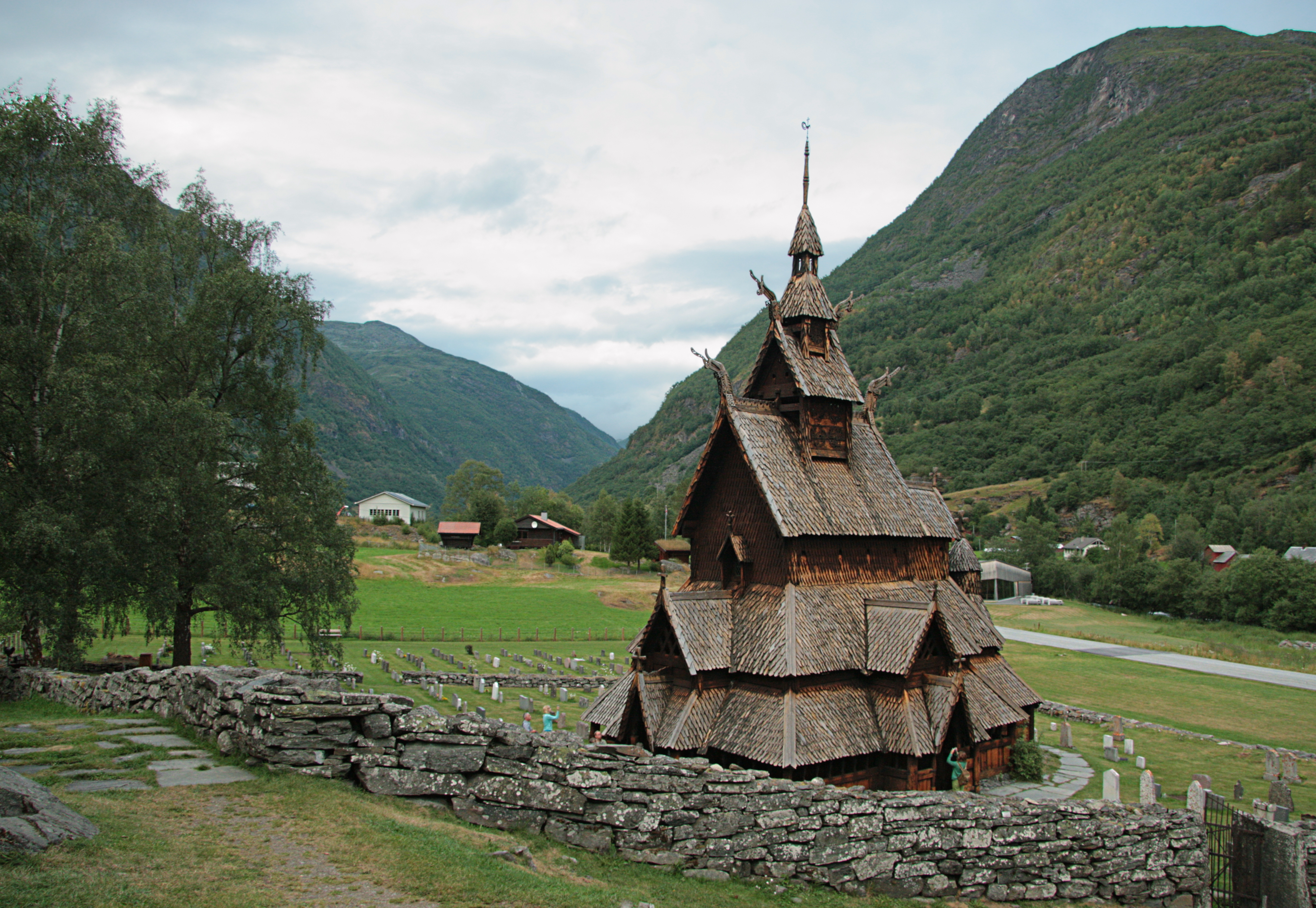 Borgund stavkirke, Norway